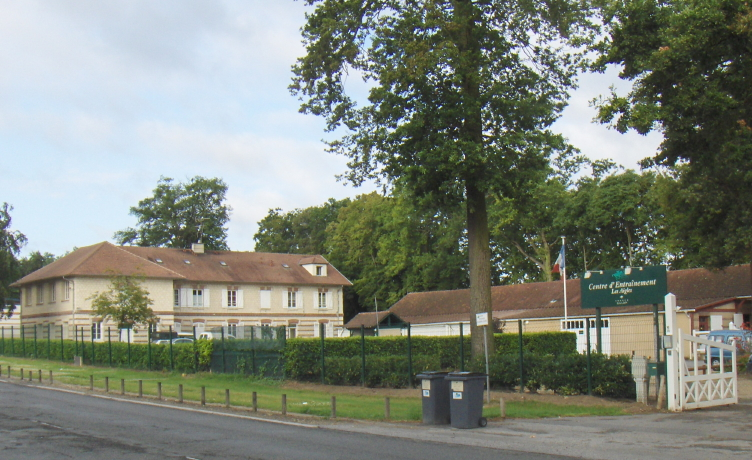 Chantilly horse racing training center, Les Aigles